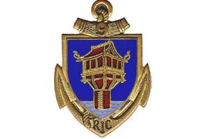 Regimental badge of the 9th Infantry Regiment coloniale .